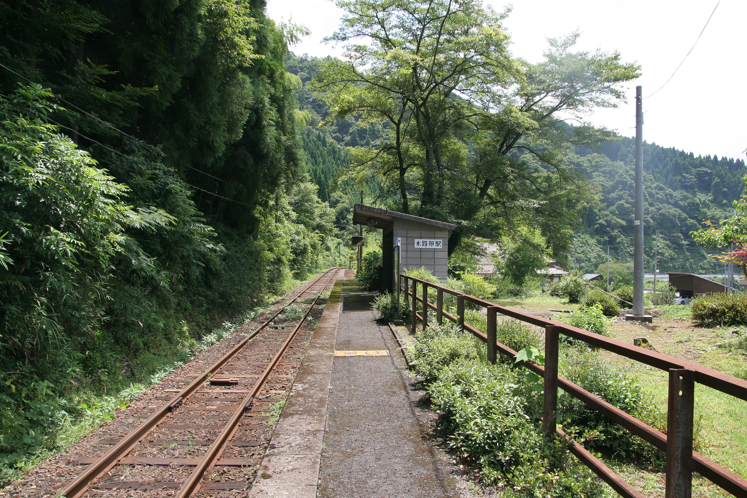 West Japan Railway Sankō Line kirohara Station enclosure